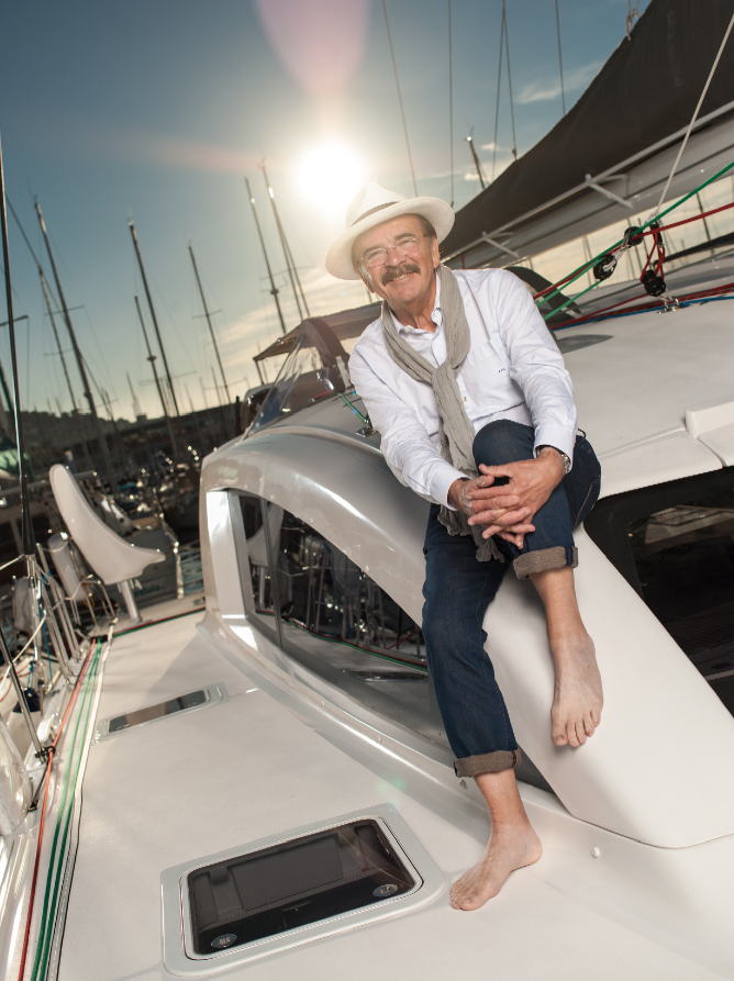 Portrait Patrick le Quément